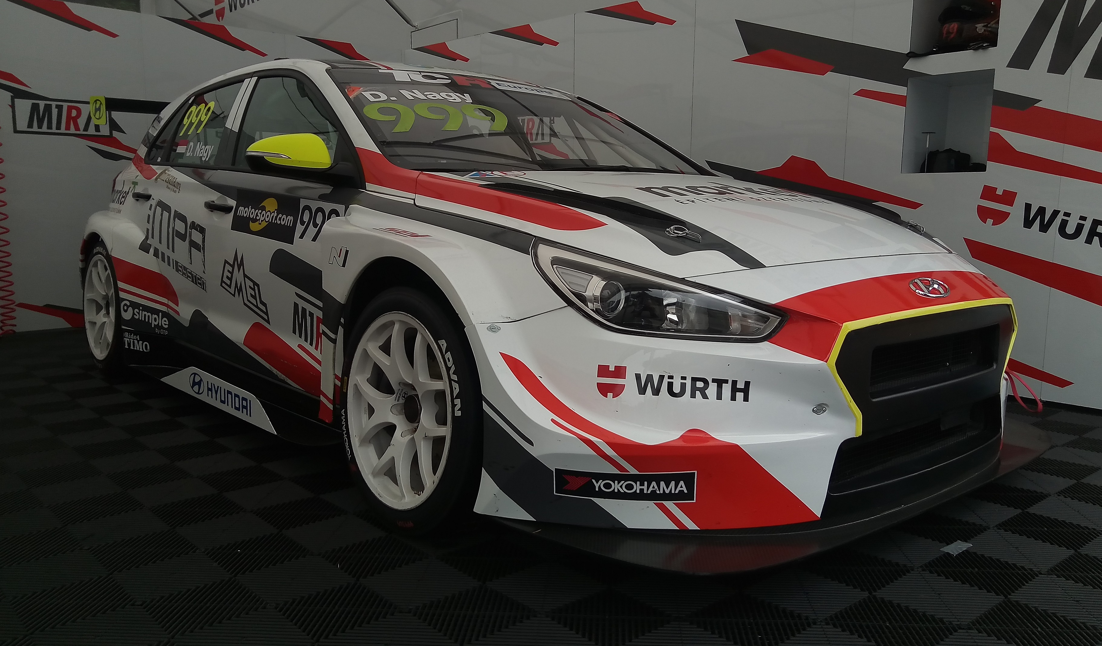 Dániel Nagy (M1RA) at the 2018 TCR Europe Series round at Spa-Francorchamps.